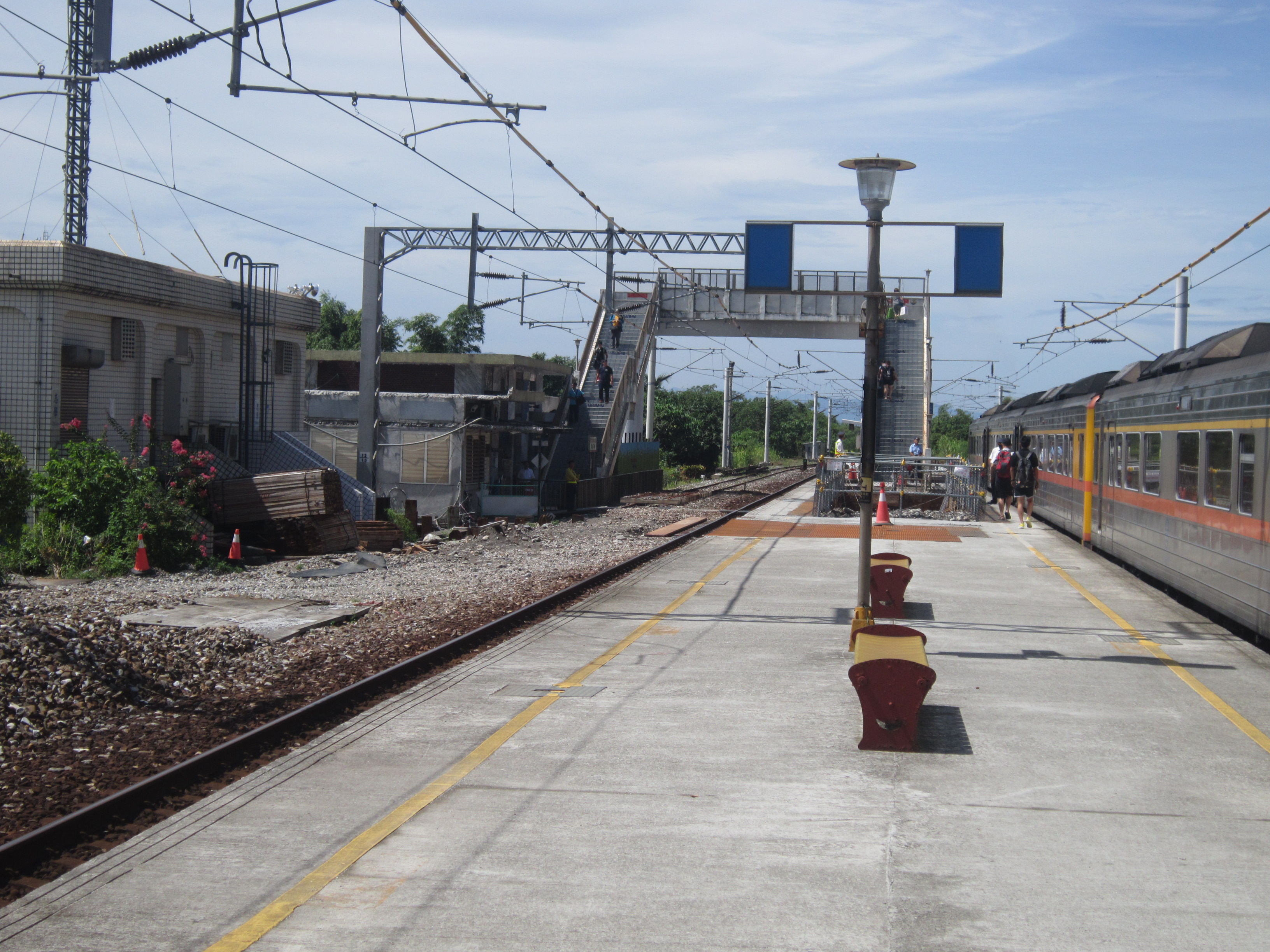 Zhixue_Station